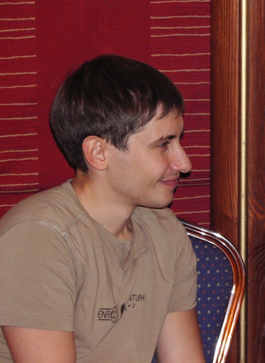 GM Dmitry Jakovenko Russia, EuroChess Iraklion 2007